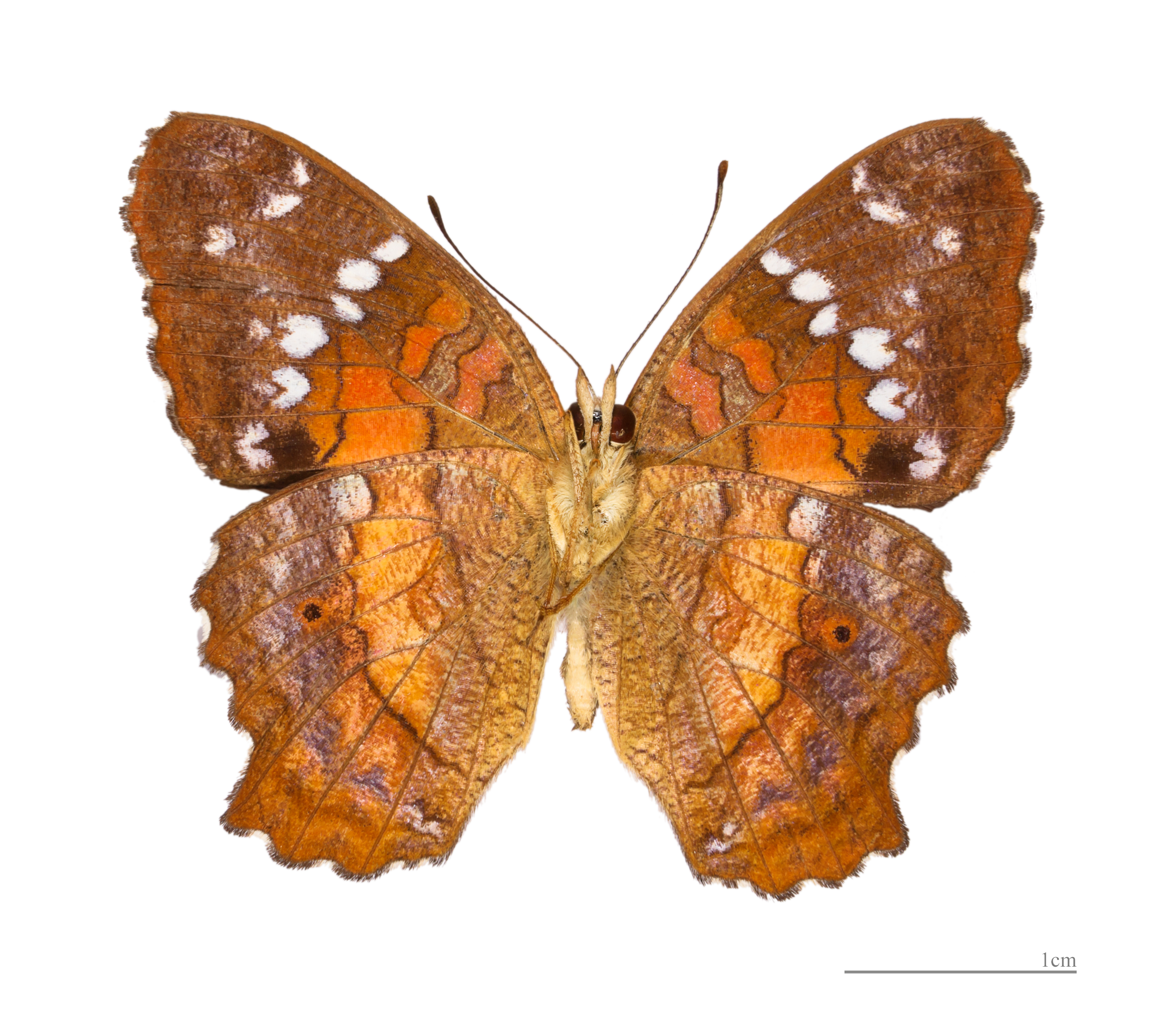 ♂ - △ Ventral side Locality : Kaw Road, Waterfalls Fourgassié. French Guiana.